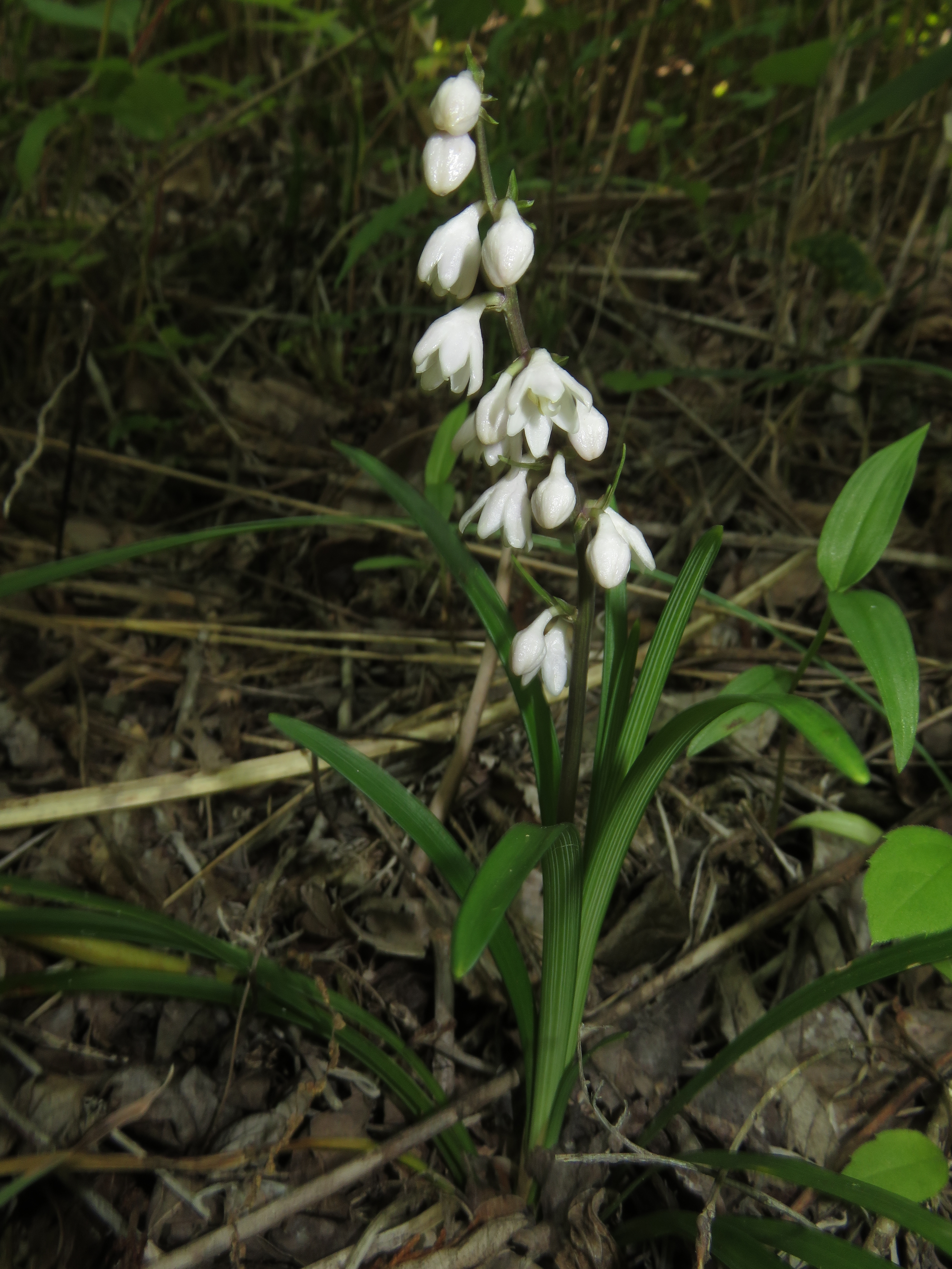 Ophiopogon planiscapus, Hama-dori area, Fukushima pref., Japan